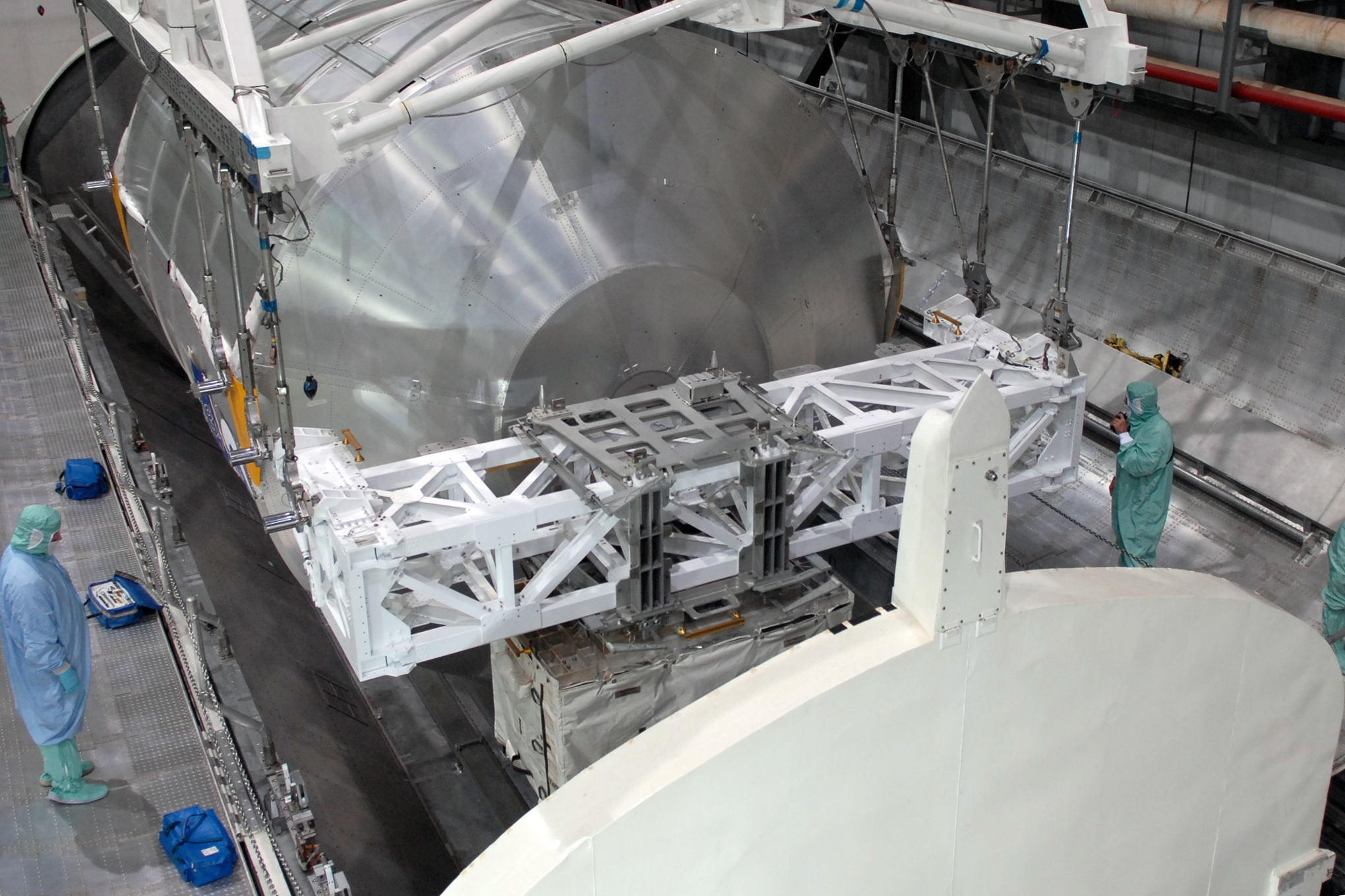 CAPE CANAVERAL, Fla. -- In Orbiter Processing Facility bay 2 at NASA's Kennedy Space Center in Florida, the Multi-Purpose Logistics Module Leonardo is placed into the payload canister after being removed from space shuttle Endeavour's payload bay. Leonardo carried 32,000 pounds of supplies to the International Space Station on the STS-126 mission in November. Endeavour returned to Kennedy on a piggyback flight from California Dec. 12.